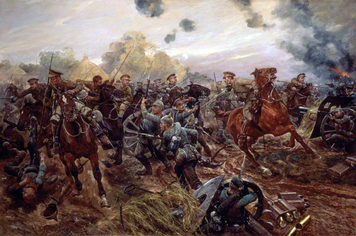 Captain Francis Grenfell, 9th Lancers, the first VC of World War I to be gazetted, winning the VC at Audregnies, Belgium, 24th August 1914